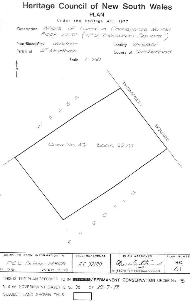 5 Thompson Square, Windsor: PCO Plan Number 005